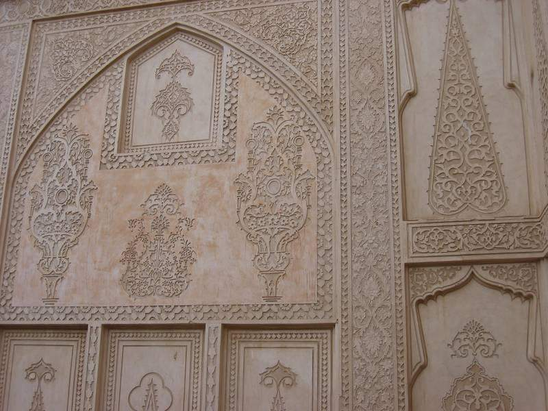 Detail of a wall carvings, Abbasian House in Kashan